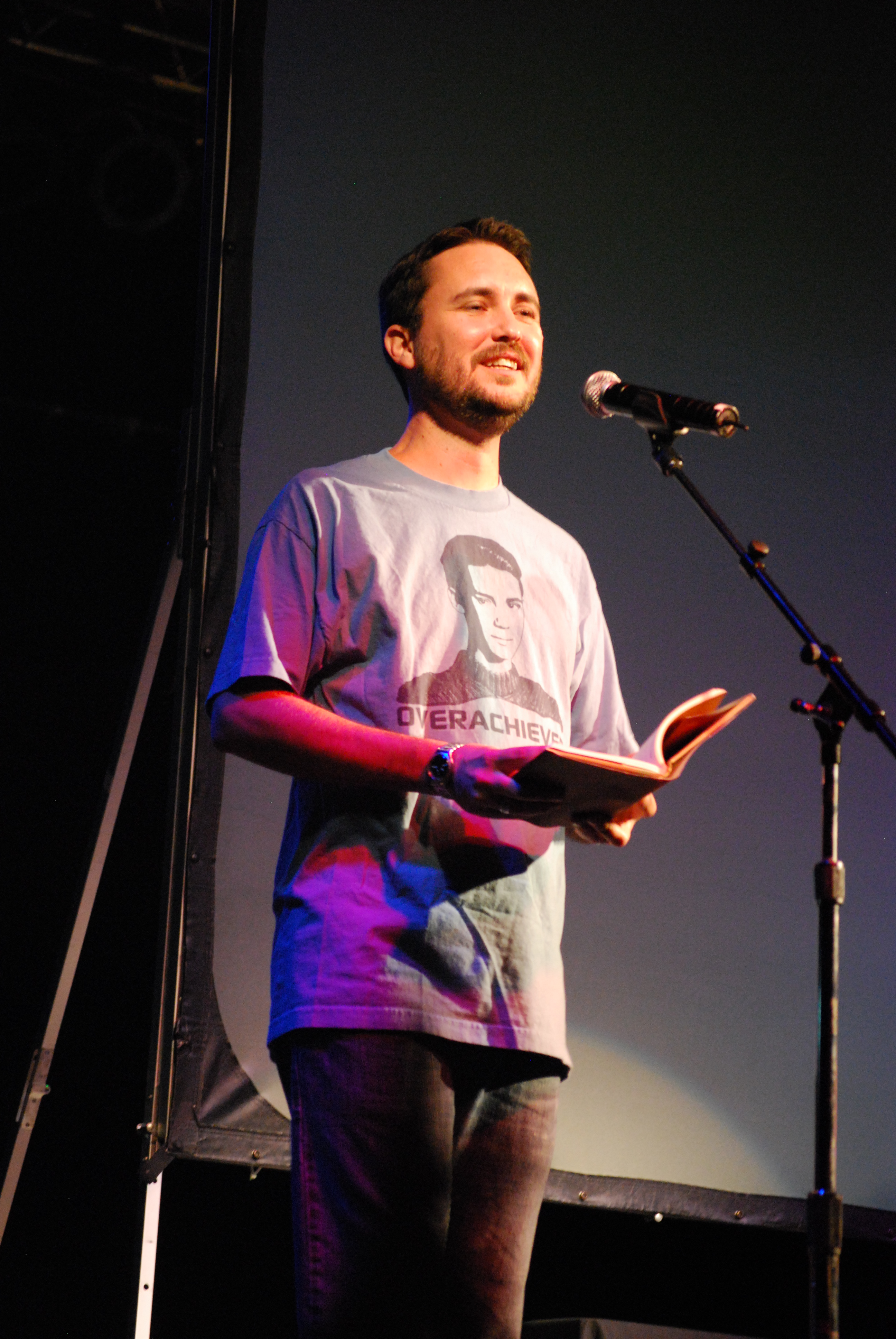 Wil Wheaton at W00tstock 2.4 in San Diego. July 22, 2010.